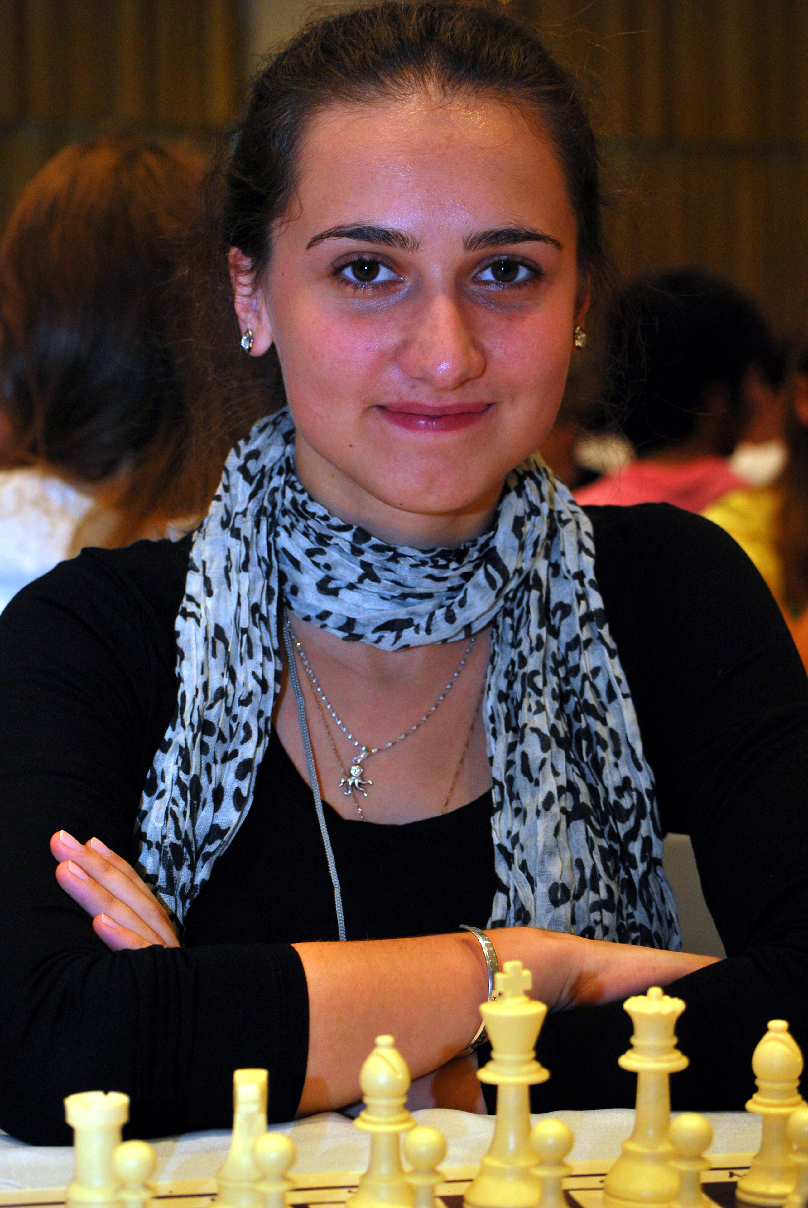 Keti Tsatsalashvili, World Youth Chess Championship, Porto Carras 2010.